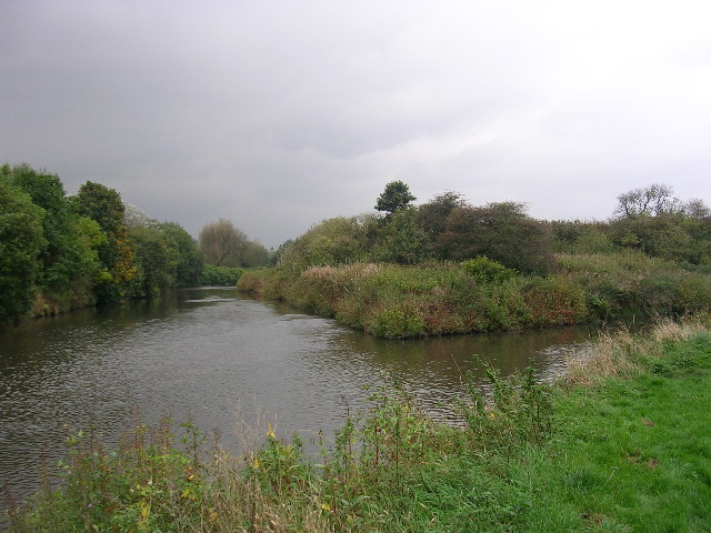 Roch Joins the Irwell